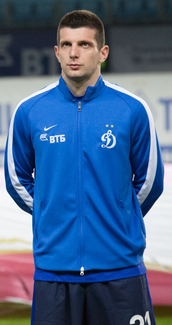 Fatos Bećiraj with FC Dynamo Moscow before the game against FC Terek Grozny on 14 March 2016.